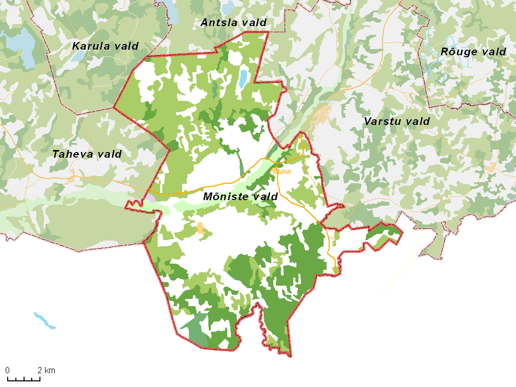 Map of municipality in Estonia